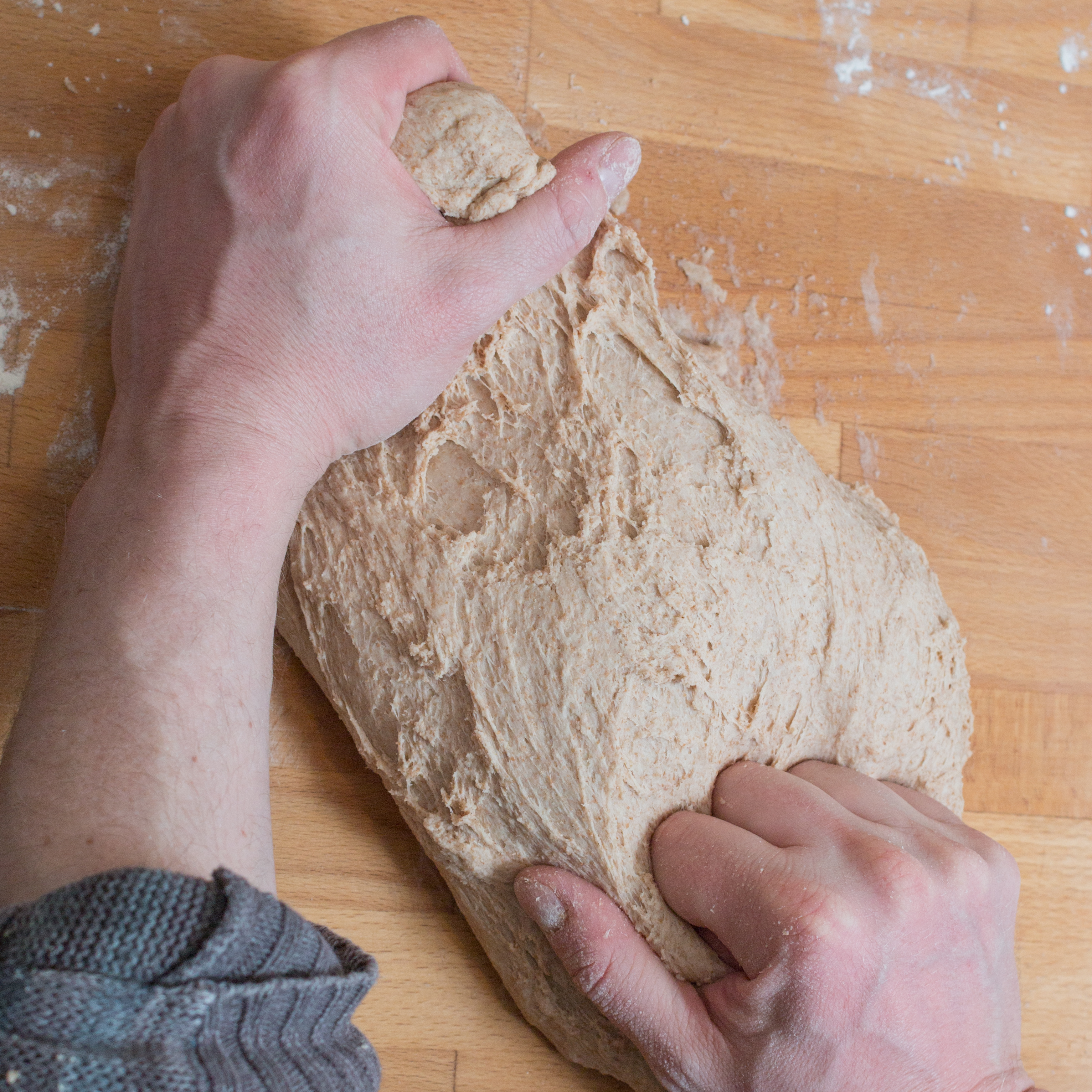 I really enjoy baking bread but rarely can find the time. Yesterday was a rare quiet afternoon (thanks to the three-day weekend) and so I grabbed my chance to make a couple of simple whole wheat sandwich loaves for the week.